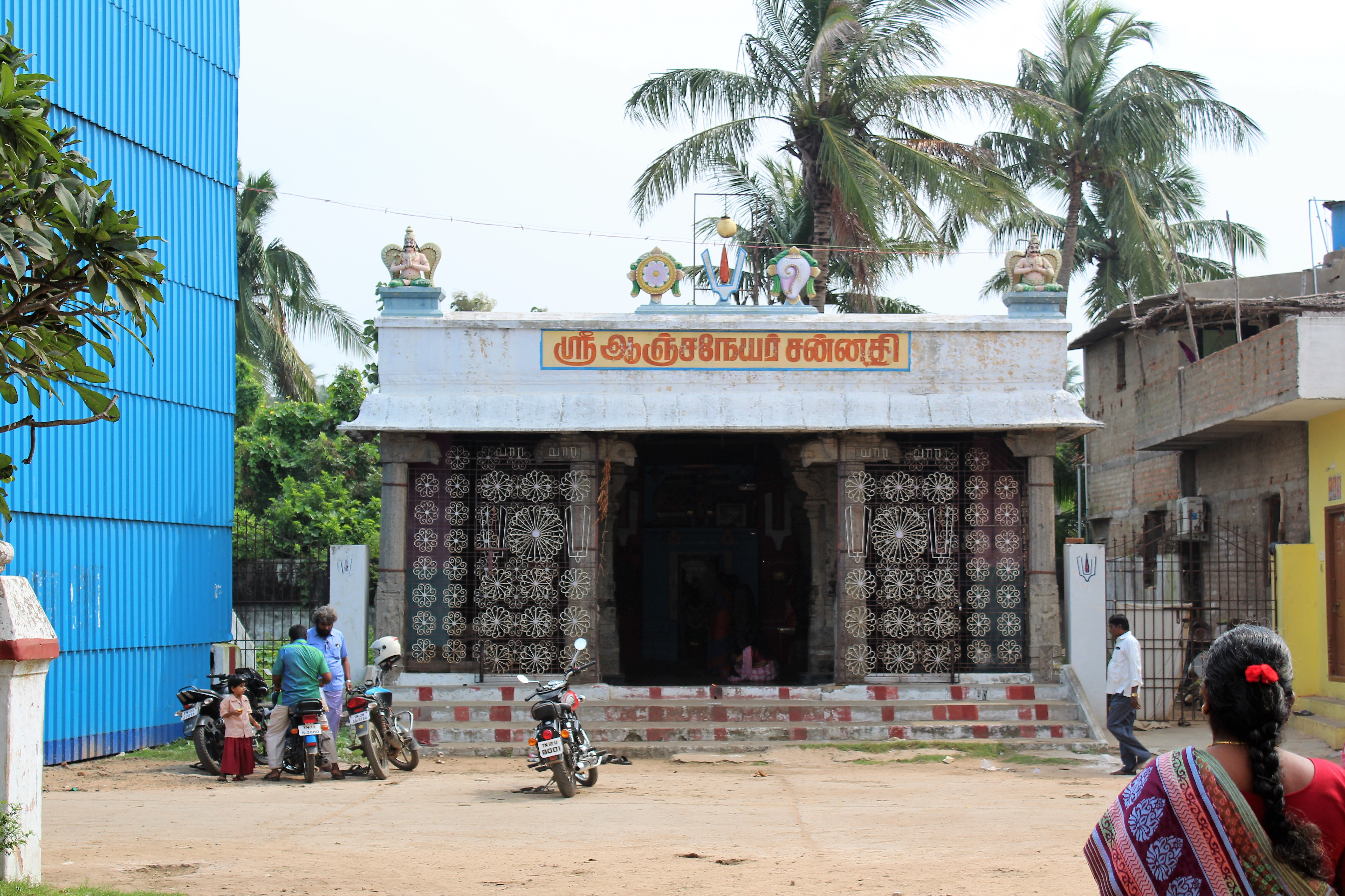 Bhaktavatsala Perumal Temple, Thirunindravur